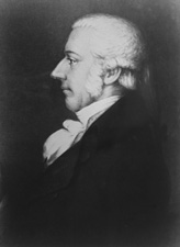 Nicholas Van Dyke (senator)